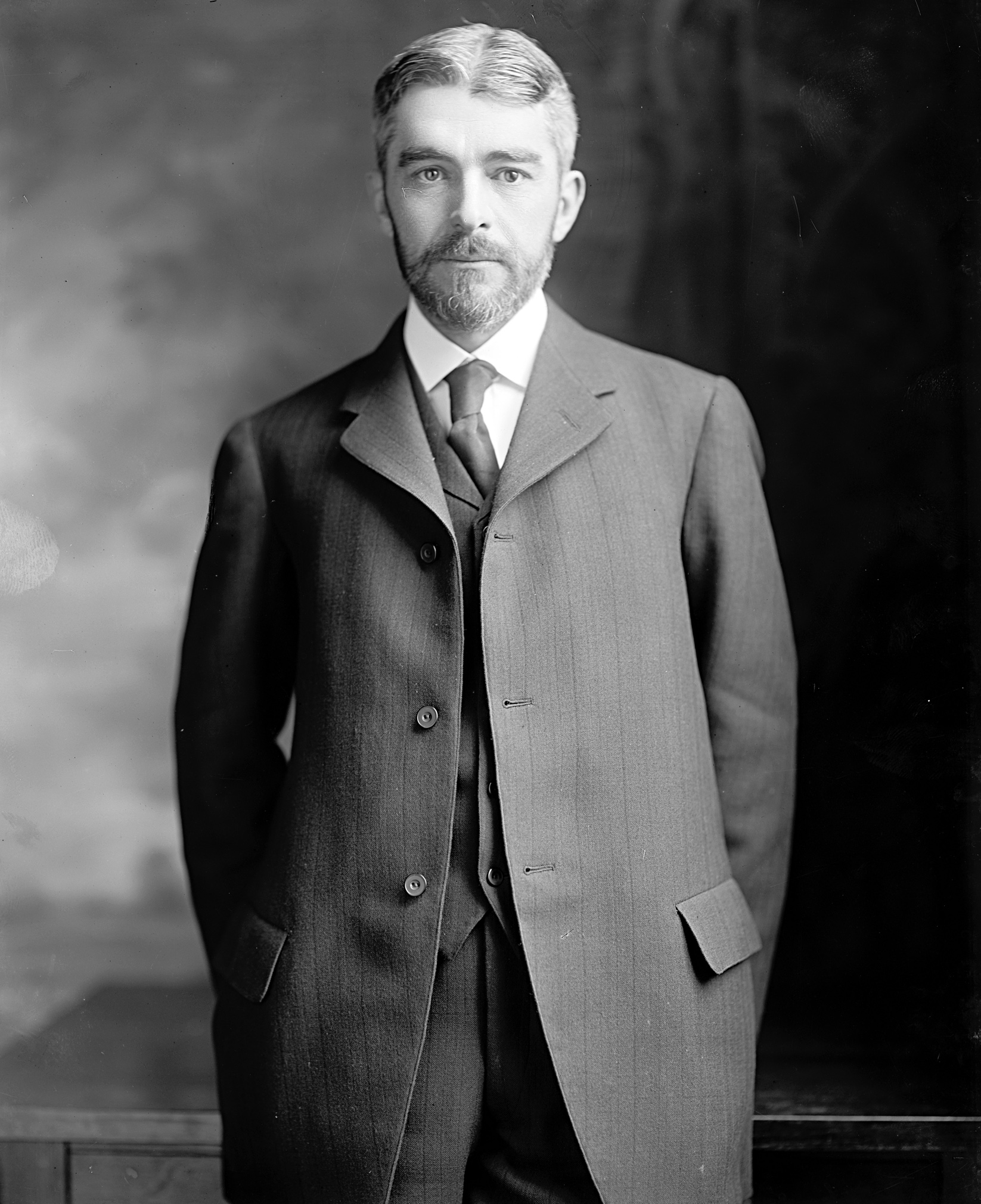 Francis R. Lassiter, US Representative from Virginia